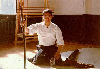 Shoji Nishio sitting with his sword, taken in Århus 1984